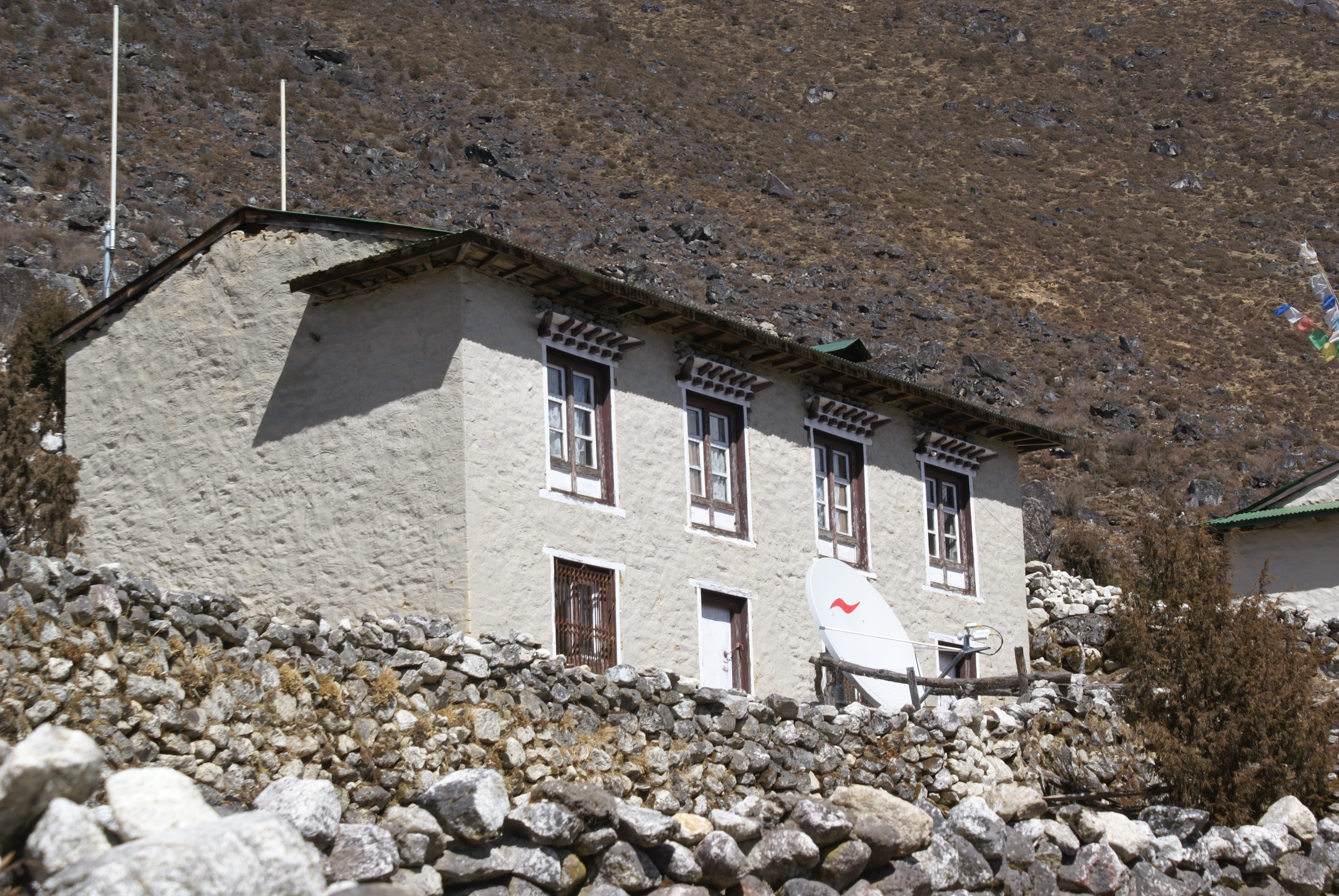 Typical Sherpa architecture with modern conveniences.